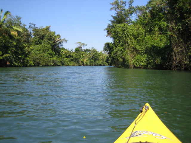 Riogrande Belize